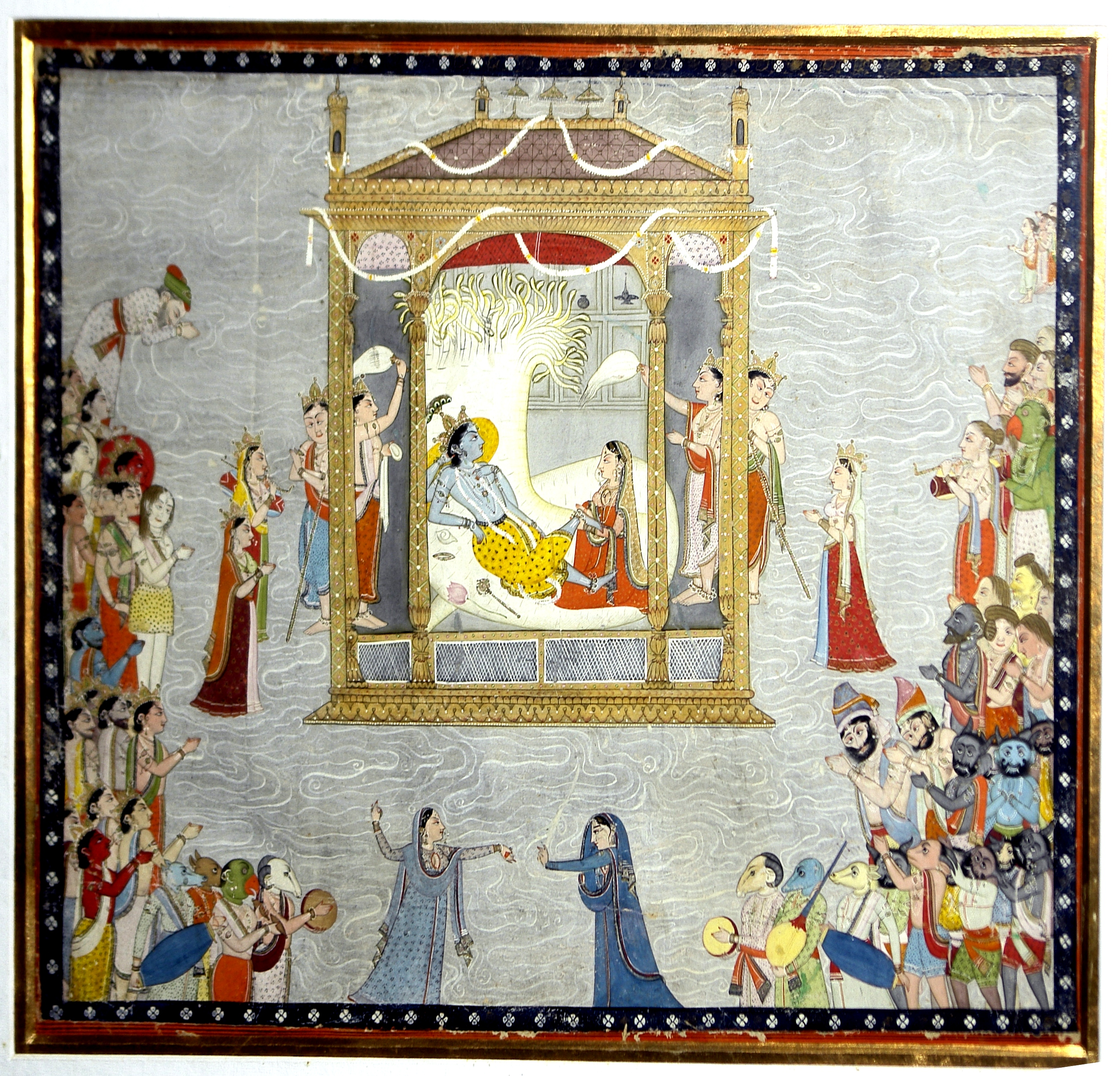 Sheshsayi Vishnu and Lakshmi enjoying festivity, National Museum, New Delhi. Chamba, Pahari, circa A.D. 1810, paper, 30 x 40.5 cm